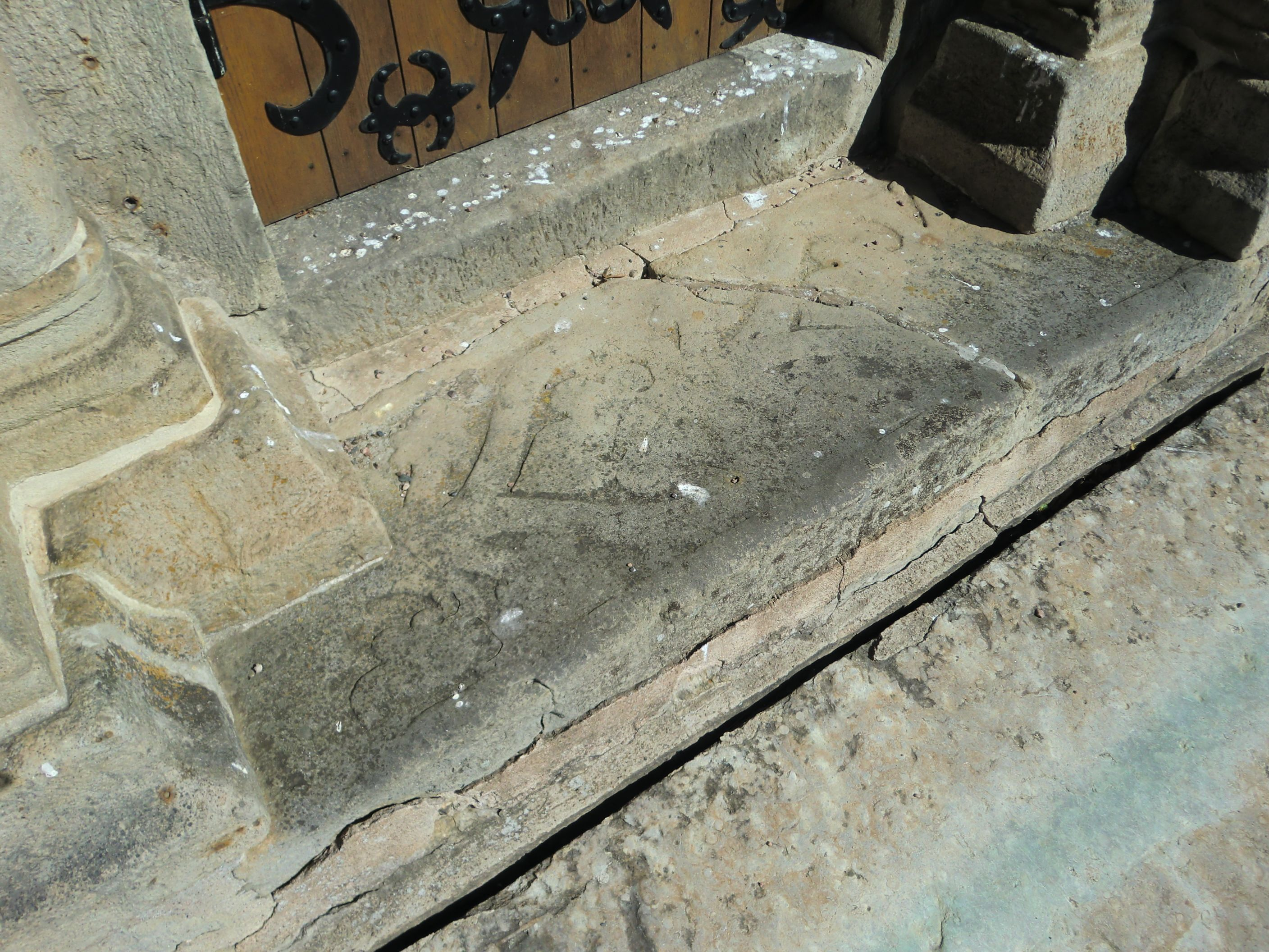 Tree of life slab used as a step stone at Forshem parish church near Lidköping, Sweden